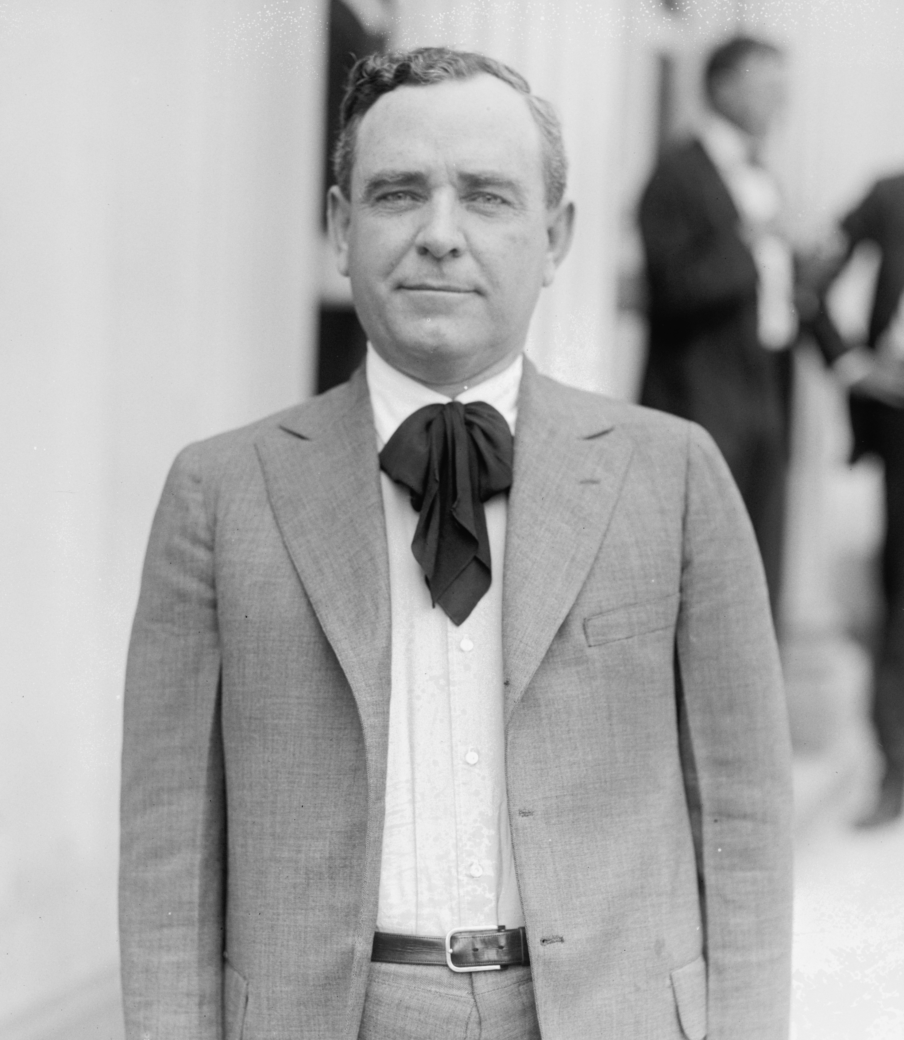 John Raymond McCarl, attorney and secretary of the National Republican Congressional Campaign Committee, prior to his appointment as the first Comptroller General of the United States in 1921.